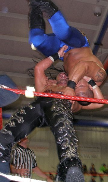 Professional wrestler Joey Matthews.